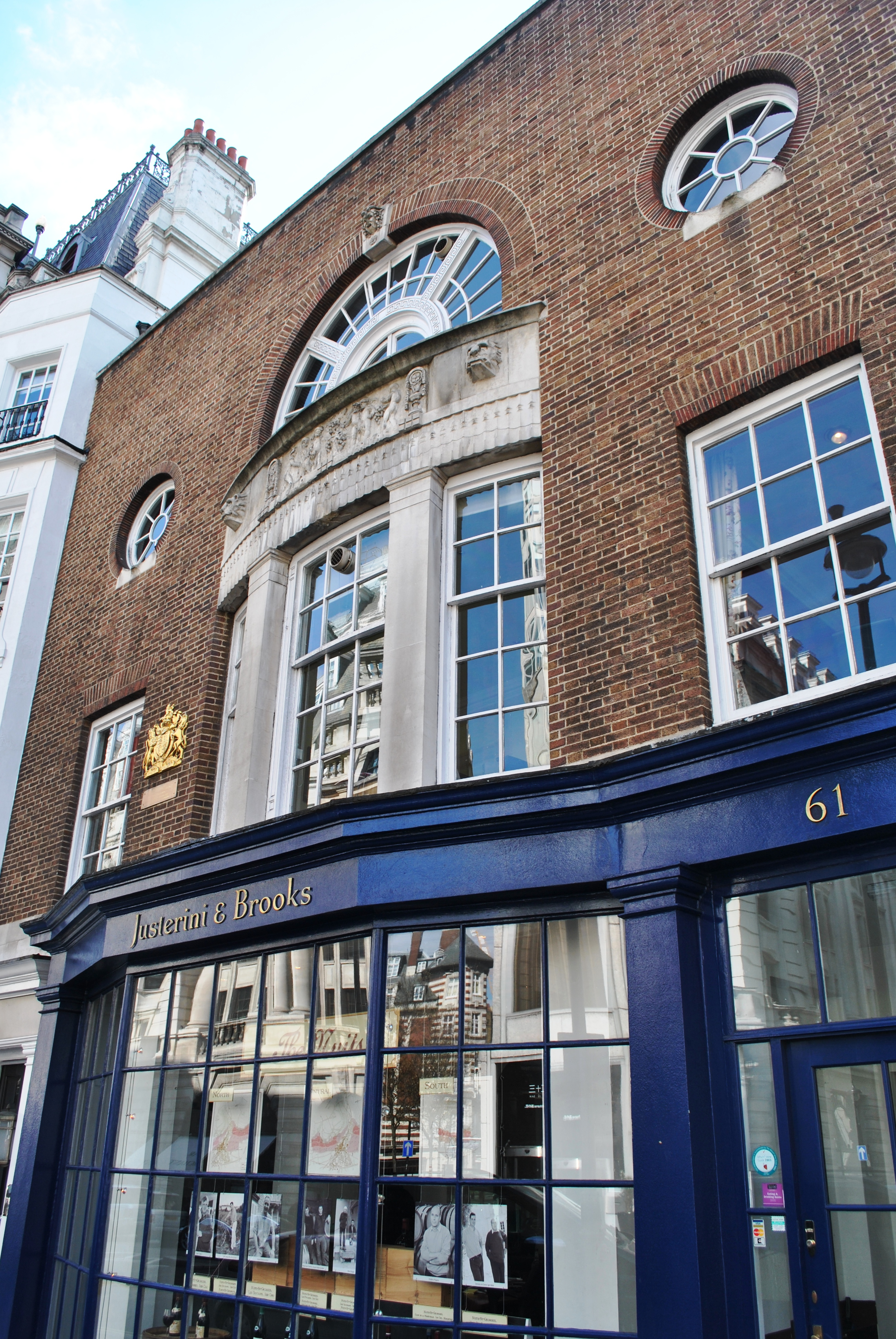 Justerini & Brooks. 61 St James's St, St. James's, London SW1A 1LZ